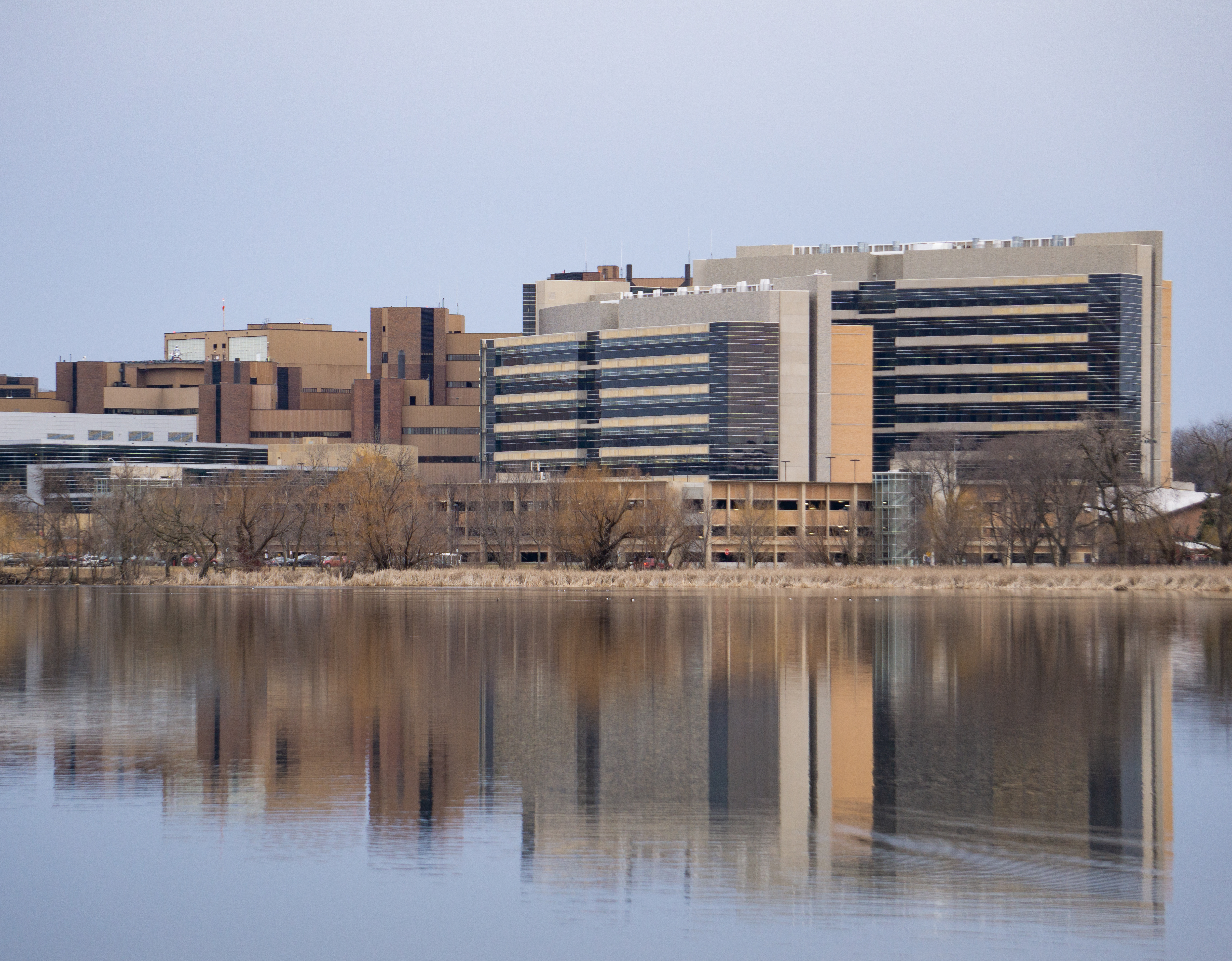 A view of the westernmost edge of the University of Wisconsin–Madison campus and University Bay, an arm of Lake Mendota, as viewed from Picnic Point. From top top bottom, left to right: UW Health University Hospital, the UW–Madison Health Sciences Learning Center, and the Wisconsin Institutes for Medical Research in Madison, Wisconsin, rising above Lake Medota. The Nielsen Tennis Center is also visible in the midground.